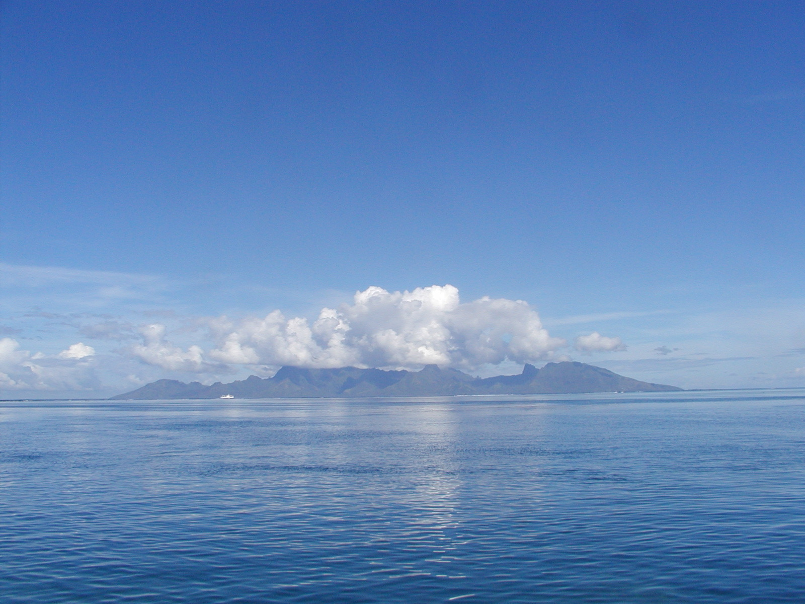 Moorea, viewed from Tahiti